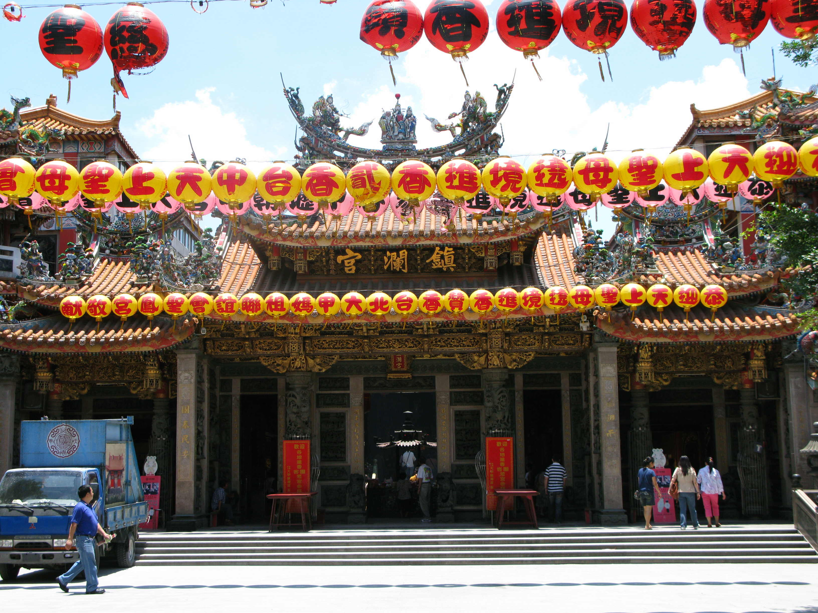 Taiwan Dajia Jenn Jann Temple.